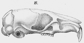 This picture is extracted from "Leche 1886 plate 16.png"; fig. 16. It shows the skull and the upper jaw of the Thaptomys nigrita.